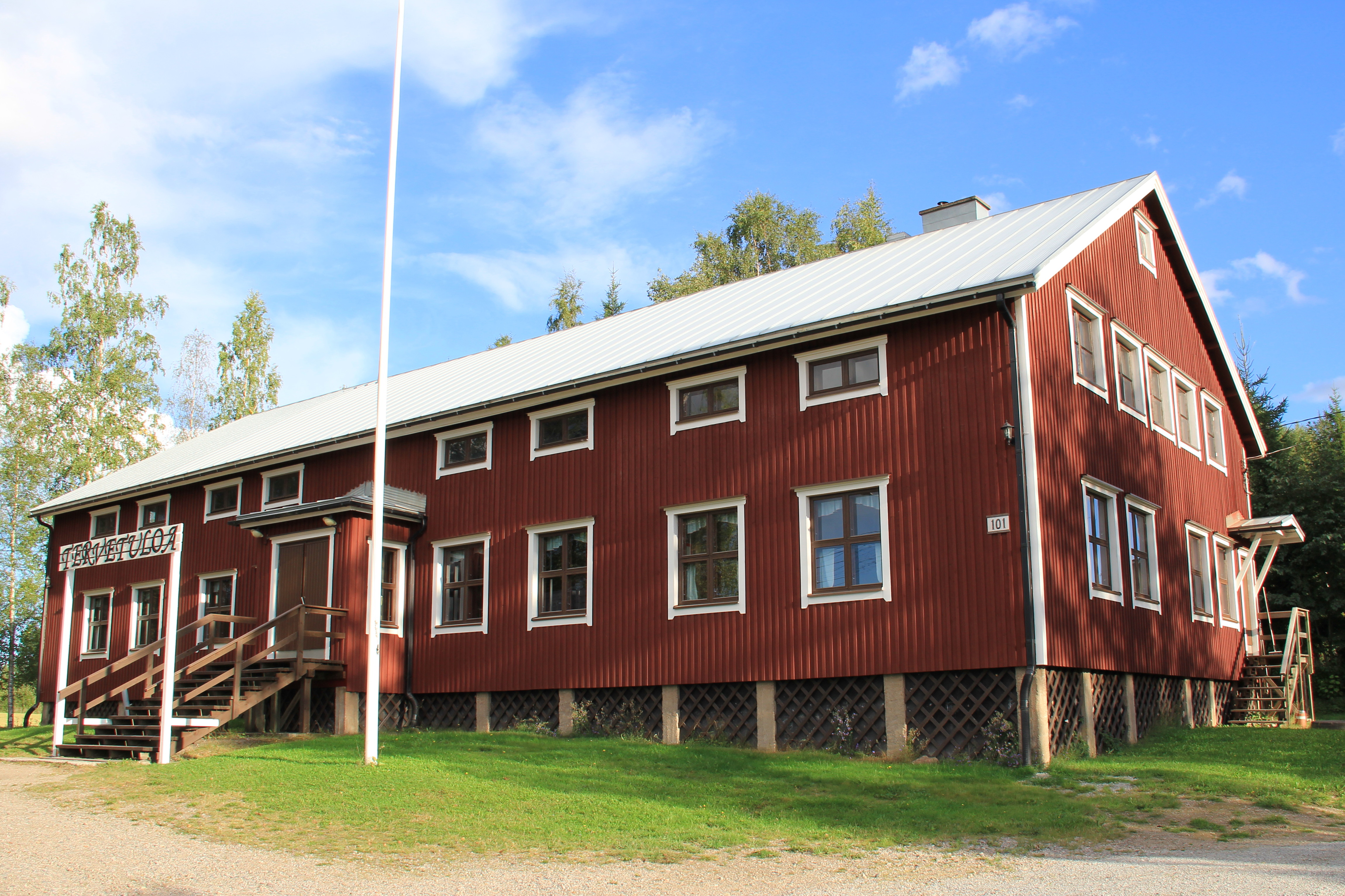 Koivistonkylä, Äänekoski, Finland. - Village Hall.